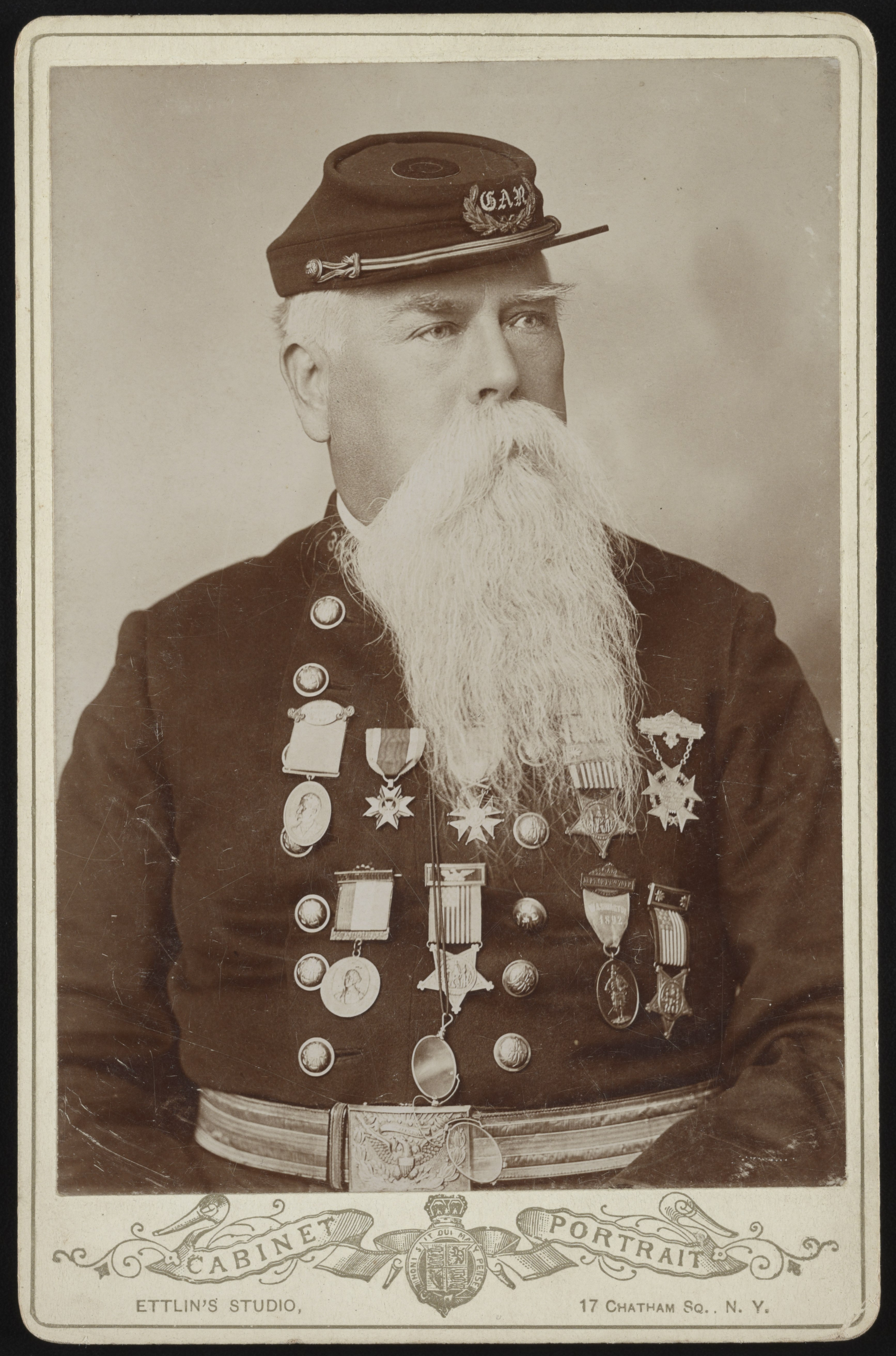 Title: Civil War veteran Abraham G. Demarest] / Ettlin's Studio, 17 Chatham Sq., N.Y. ; Ettlin's Photographic Art Studio, 17 Chatham Sq., N.Y Abstract/medium: 1 photograph : albumen print on card mount ; mount 17 x 11 cm (cabinet card format)